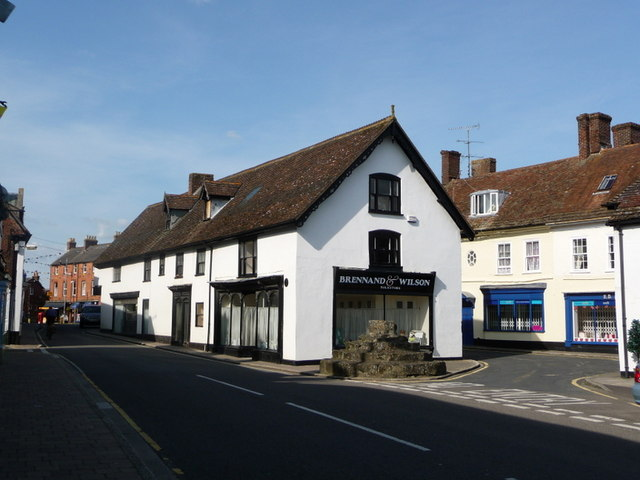 Sturminster Newton: town centre Looking in the opposite direction to 525918, with the remains of the cross alongside a building on the Market Place. The main road narrows to single-file traffic along here.